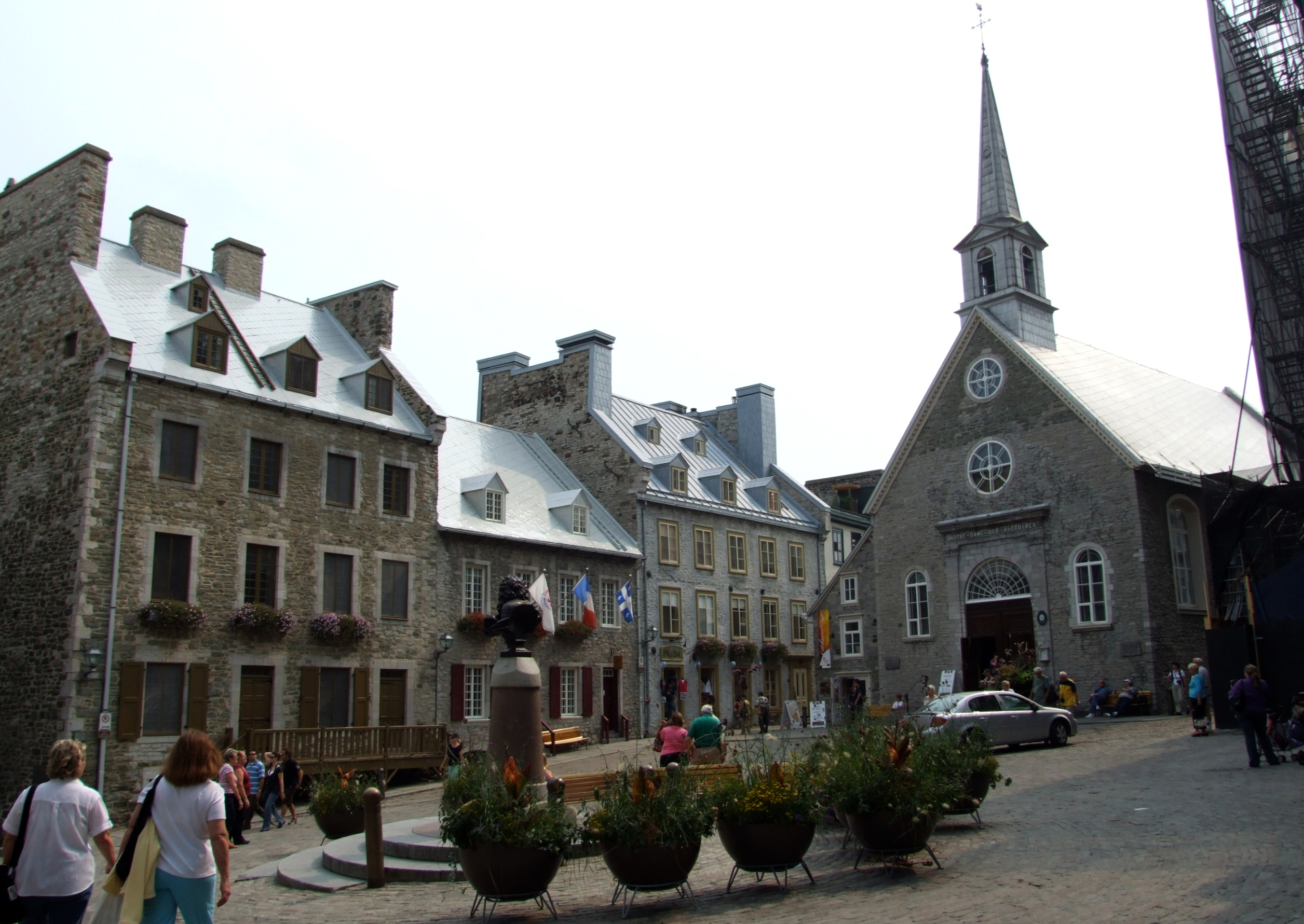 Quebec city, CANADA